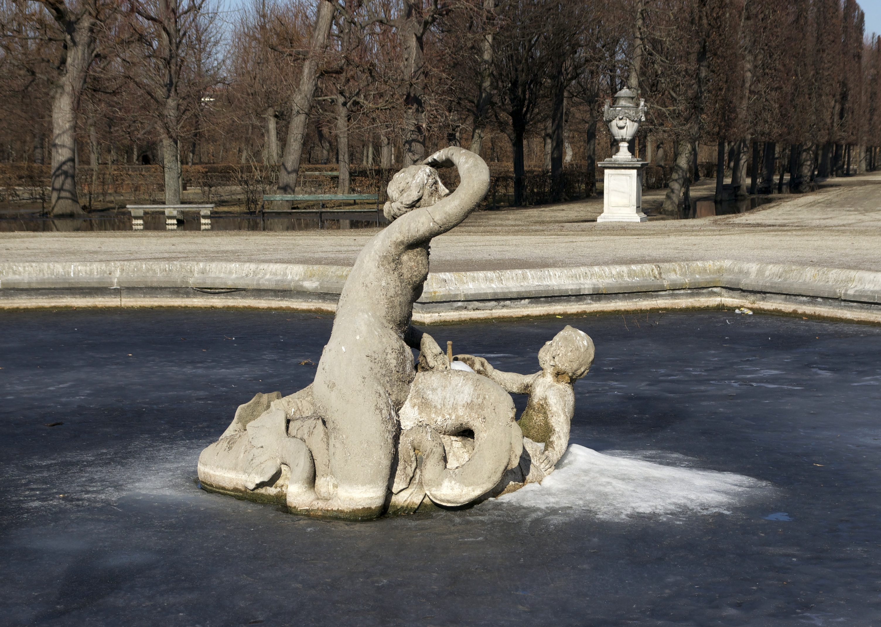 A frozen pond and fountain in the gardens of Schönbrunn Castle, Vienna, Austria.